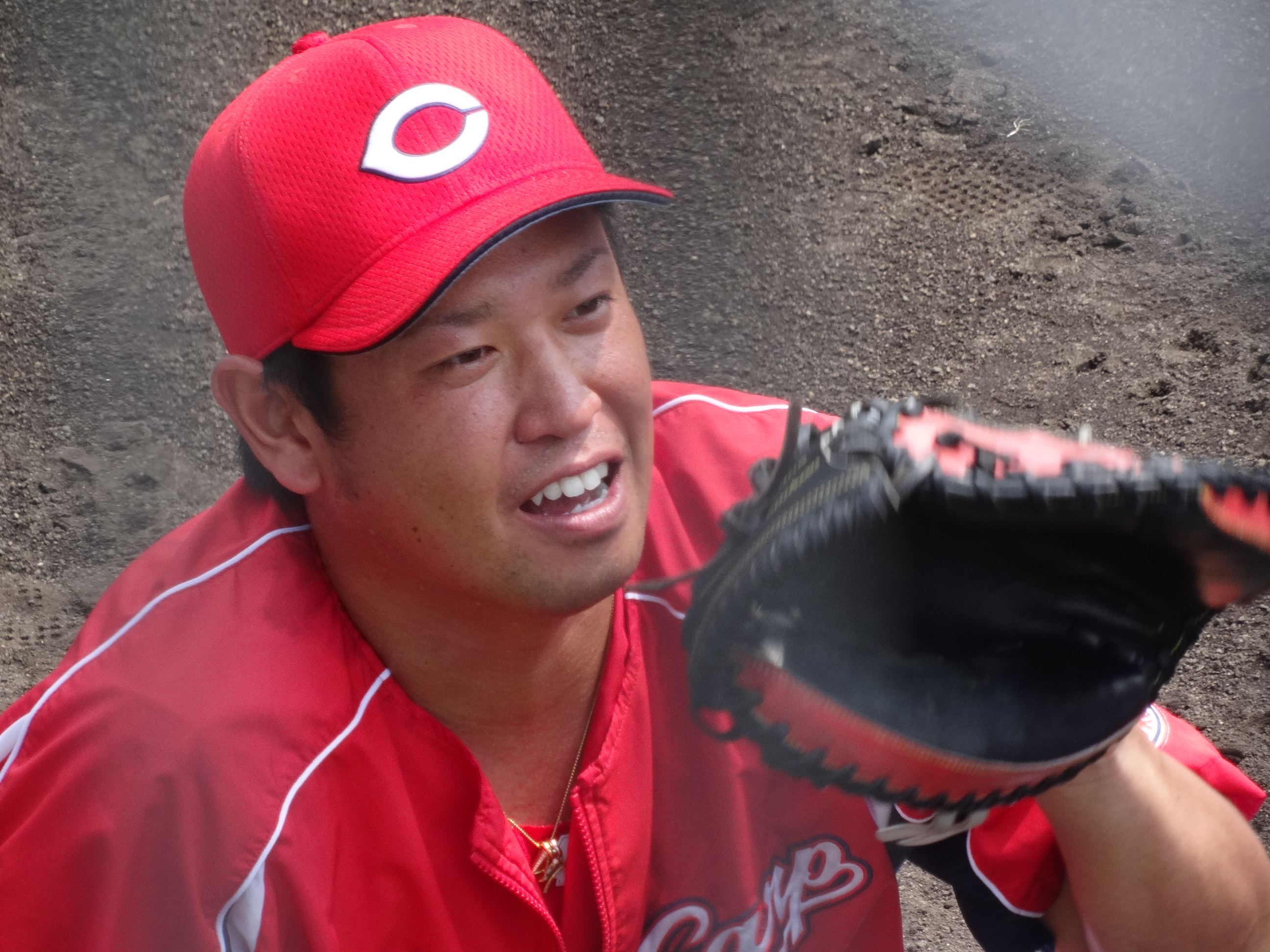 Jumpei Ono, pitcher of the Hiroshima Toyo Carp, at Hanshin Naruohama Baseball Ground.